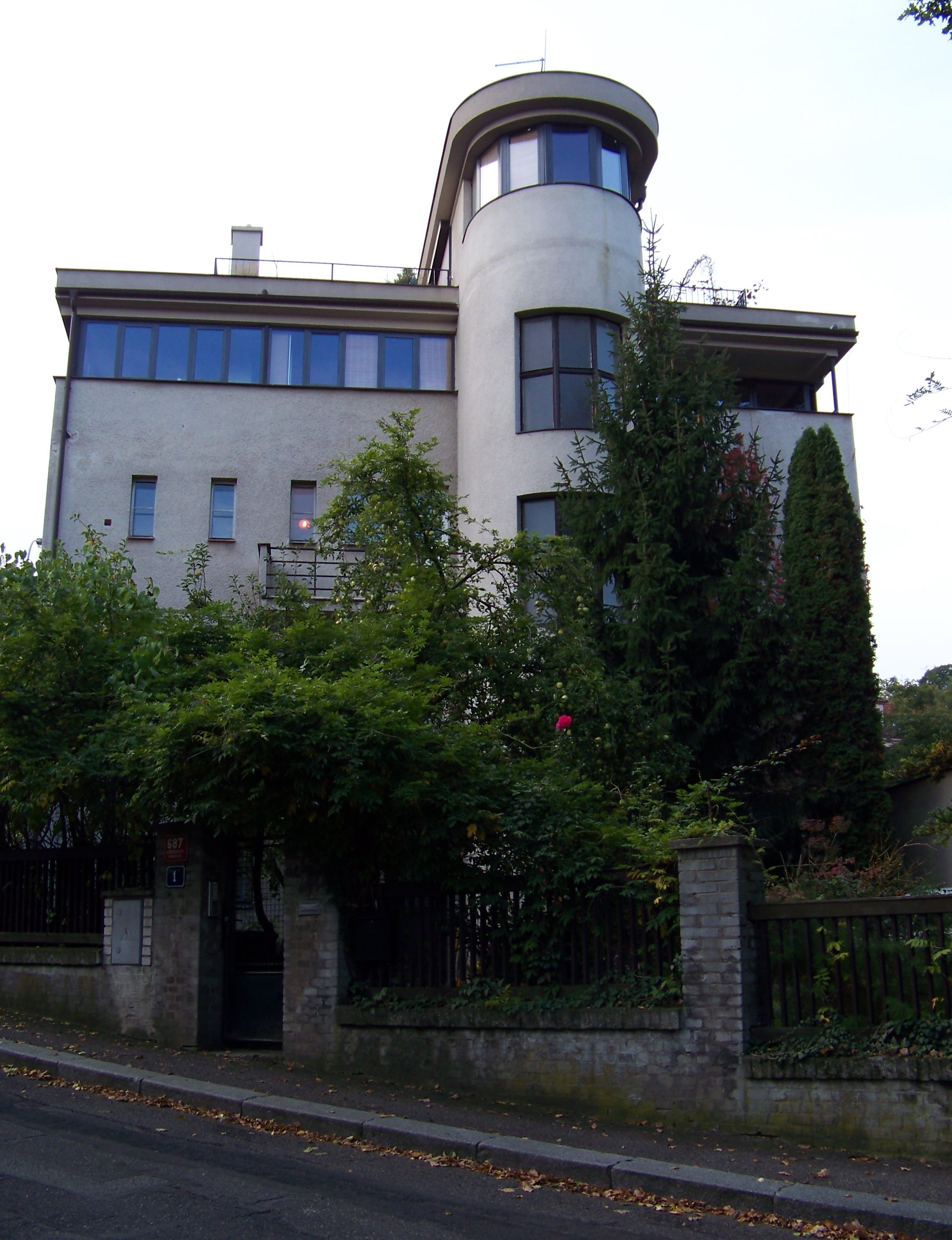 Prague-Střešovice, the Czech Republic. Na pěkné vyhlídce 687/1 (Střešovická 687/36).